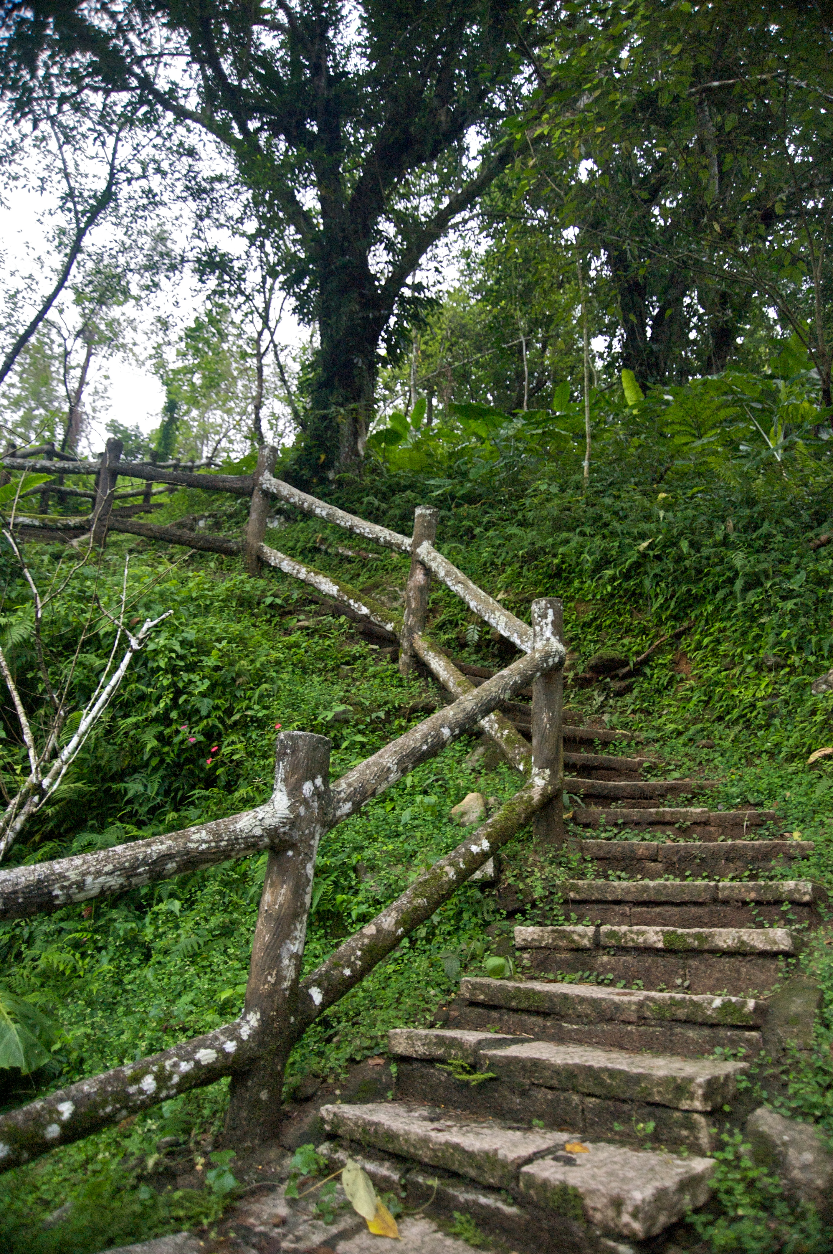 Views while on the mountain trail around the LiYu (Carp) Lake in Taiwan.